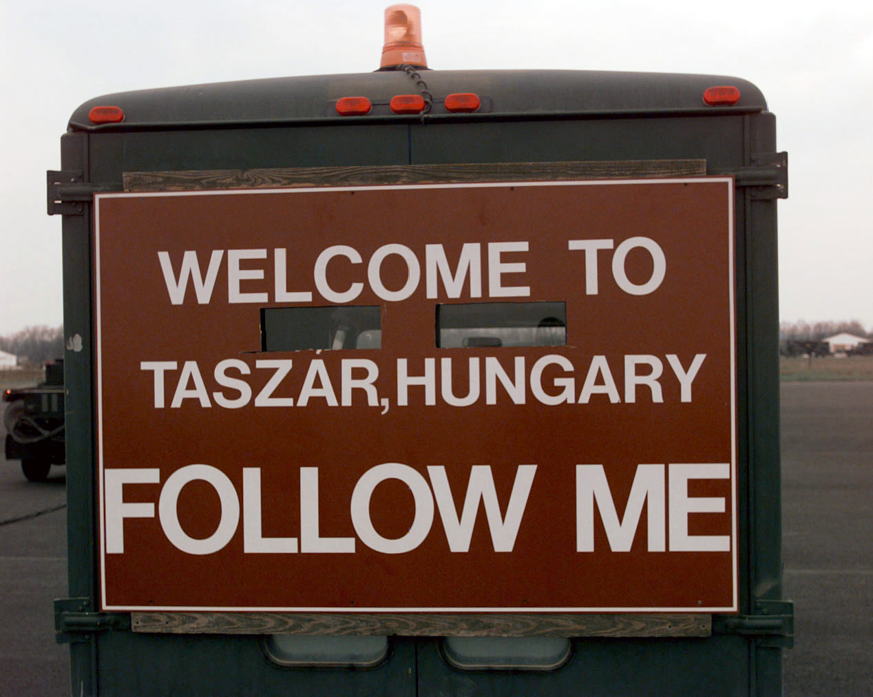 Taszar Air Base, Hungary, is a staging point for American troops and equipment before entering the former Yugoslavian region primarily Bosnia-Herzegovina, in support of Operation JOINT GUARD (previously Operation JOINT ENDEAVOR). JOINT GUARD is the multi-national peacekeeping mission that provides a climate of stability in the war-torn land of Bosnia-Herzegovina.